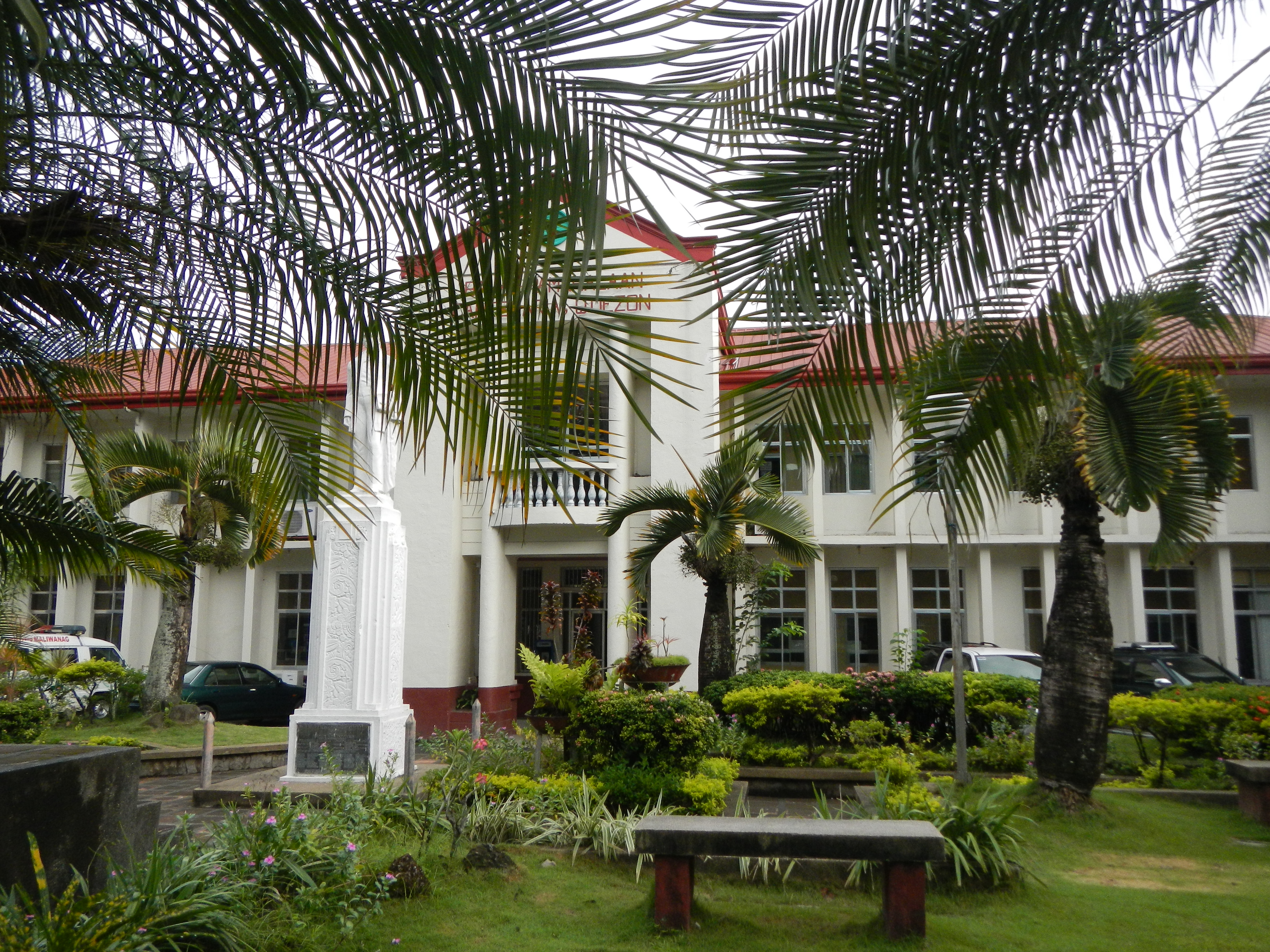 UploadWizard photos of the Rizal Avenue, Sangguniang Bayan Session Hall, Municipal Offices, Andres Bonifacio Monument, Police Station, busy commercial center - Jollibee, Hacienda Inn, downtown, the stores surrounding the Municipal building and the landmark Church, Carabao Monument, the Monument and Memorial of World War II Heroes of Candelaria, the Narra tree planted by President M. L. Quezon, the Town hall of - Candelaria, Quezon [1] The Municipality of Candelaria (Filipino: Bayan ng Candelaria) is a first class municipality in the province of Quezon, [2] Philippines; (2010 census, it) has a population of 110,570, it has a total area of 175 km².